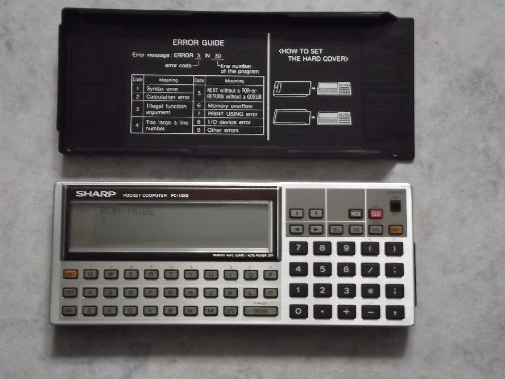 Sharp PC-1350DSCF1221